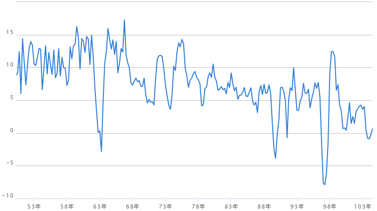 taiwan gdp yoy